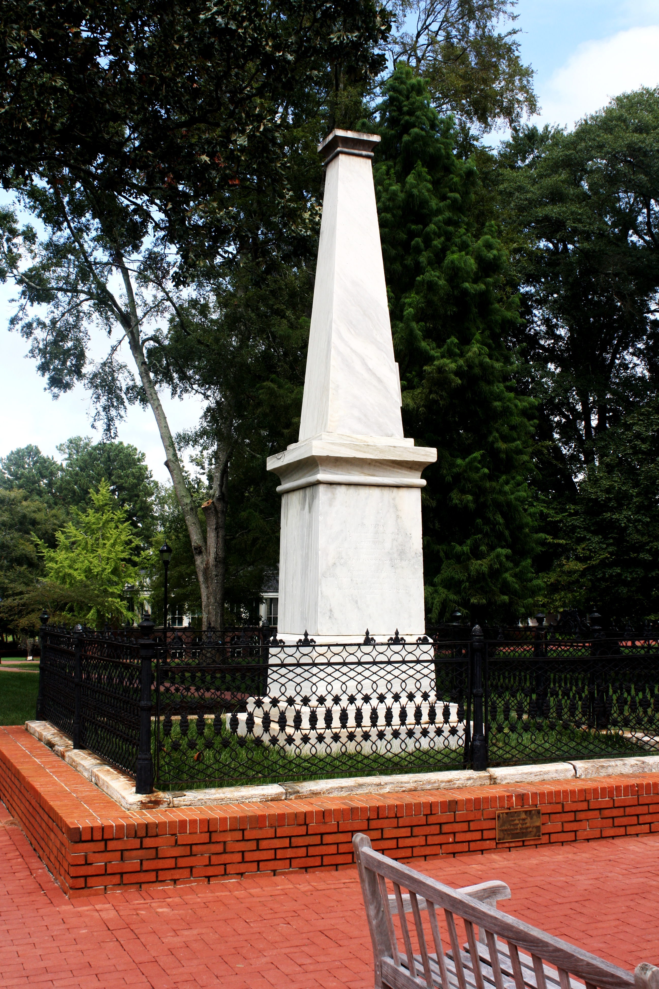 The Few Monument was erected in 1855 by the Grand Masonic Lodge of Georgia in memory of Ignatius Few, one of the founders of Emory University. Object location33° 37′ 32″ N, 83° 52′ 13″ W